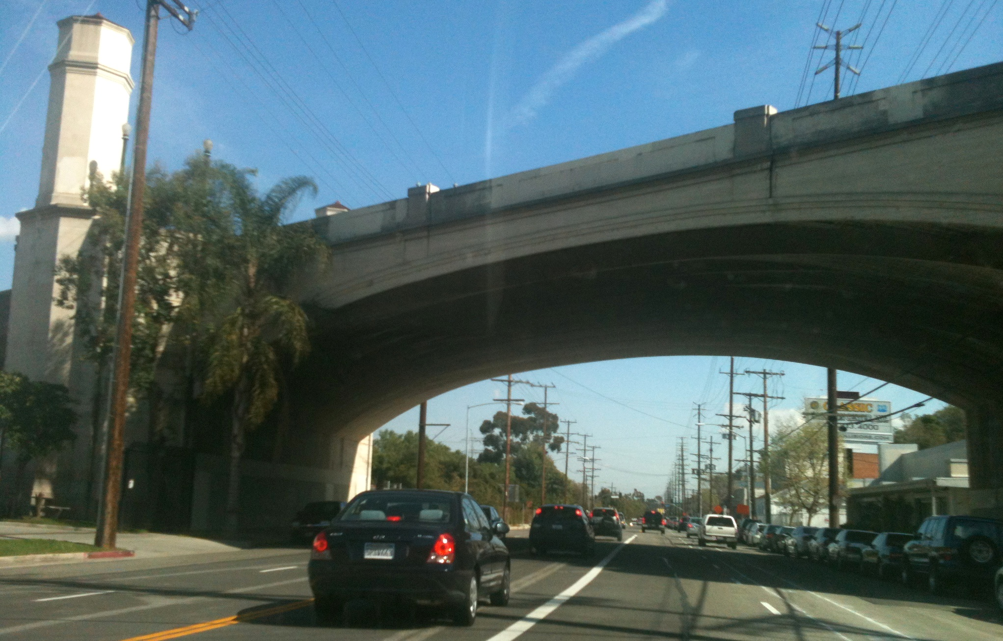 A view of hyperion bridge in Silverlake near the I-5 freeway